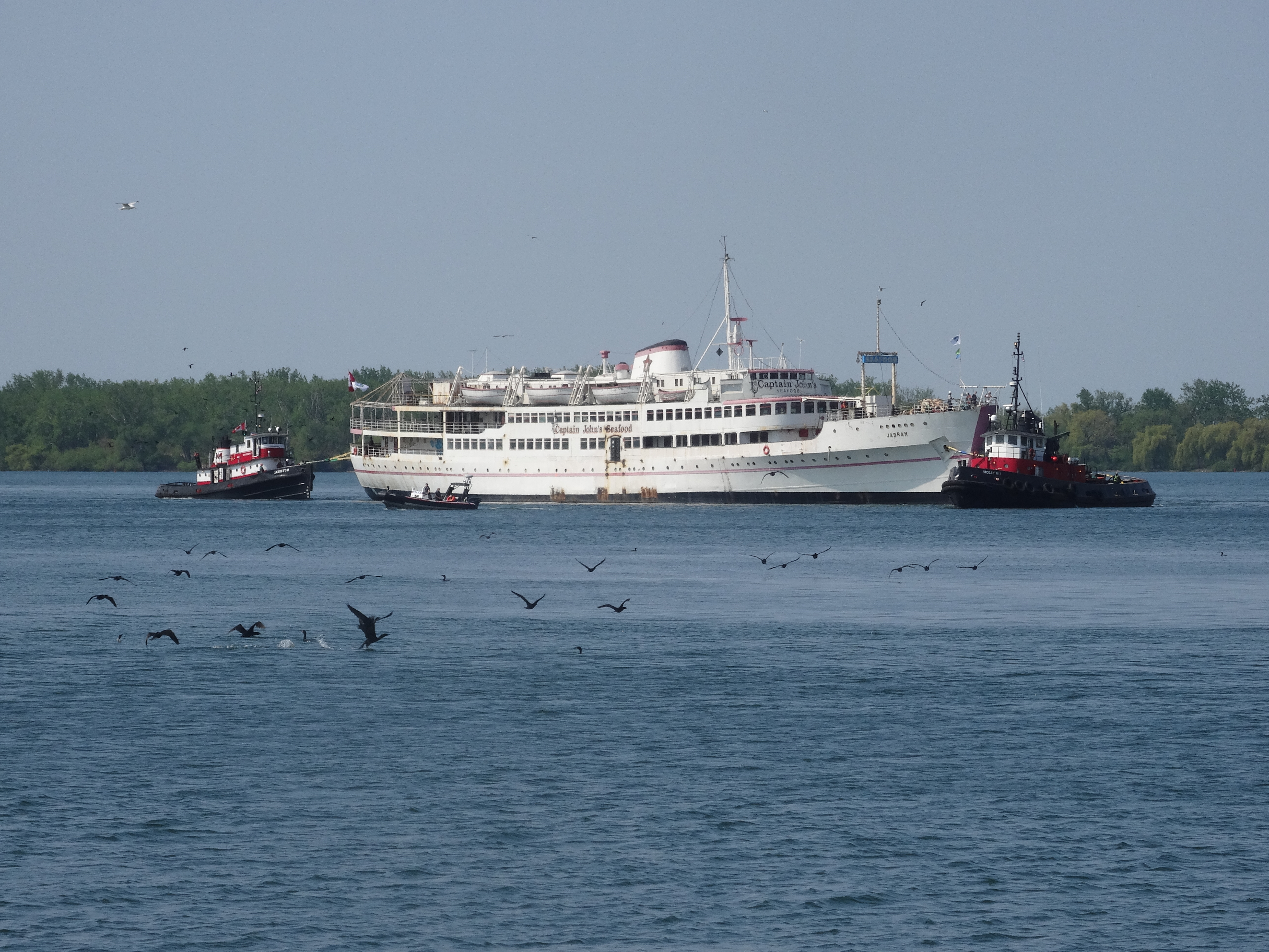 The 'Captain John', formerly the MS Jadran, begins her last voyage to the Port Colborne Ship Breakers, 2015 05 28 (15)